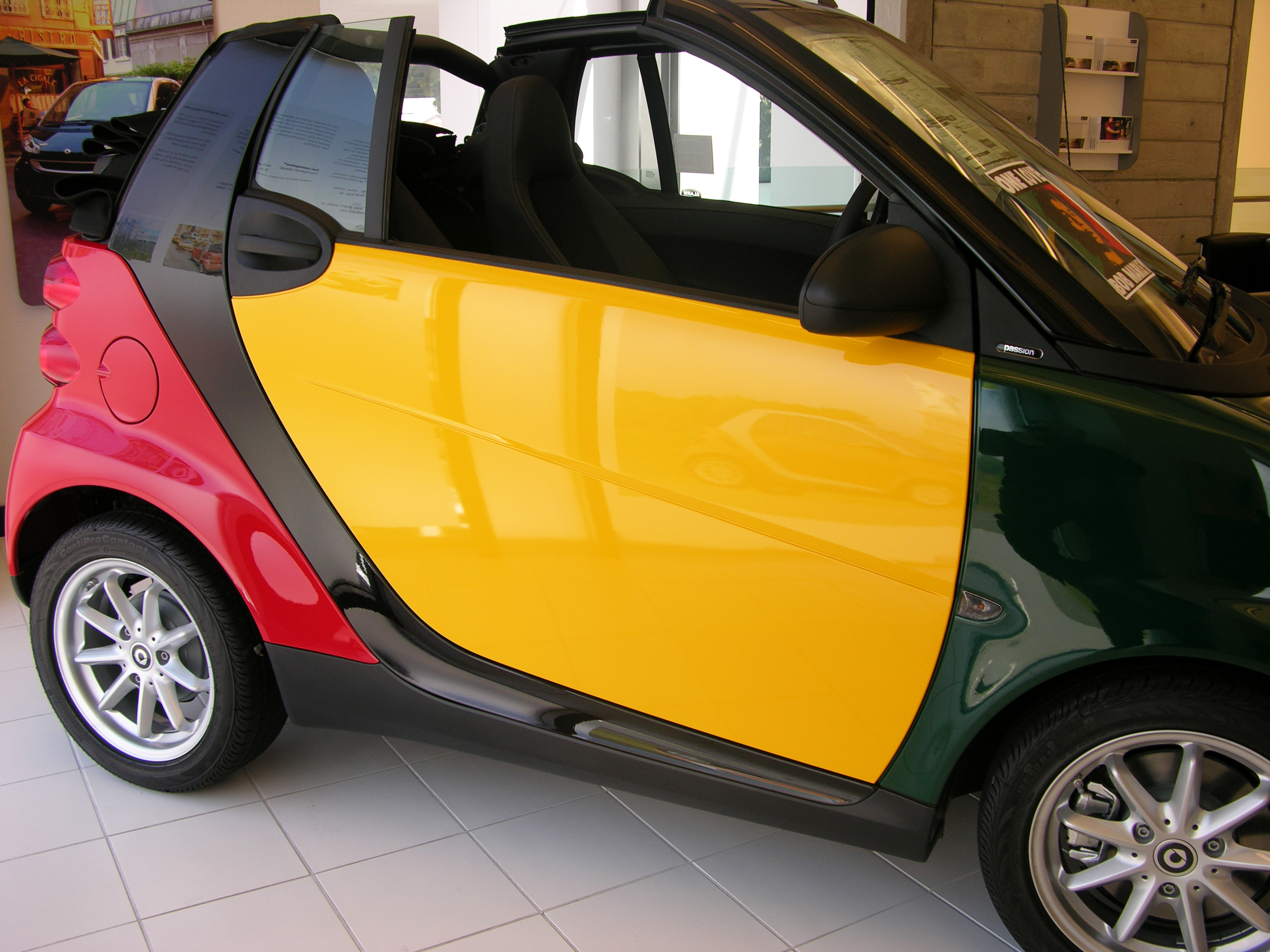 bob marley smart 451 fortwo passion cabrio at san francisco smart center